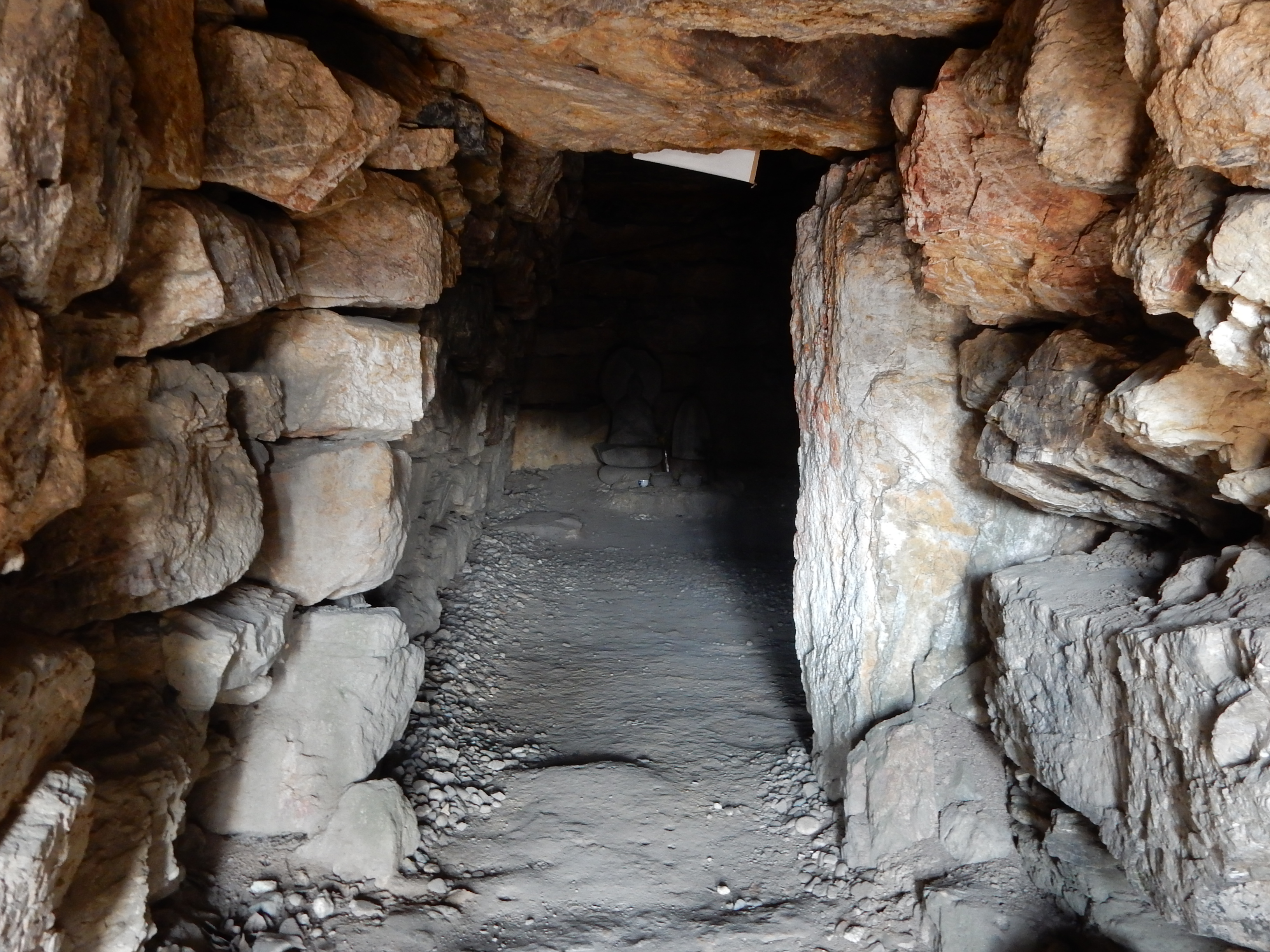 Johoji Kofun (城宝寺古墳), Hieda, tahara-cho, Tahara, Aichi, Japan